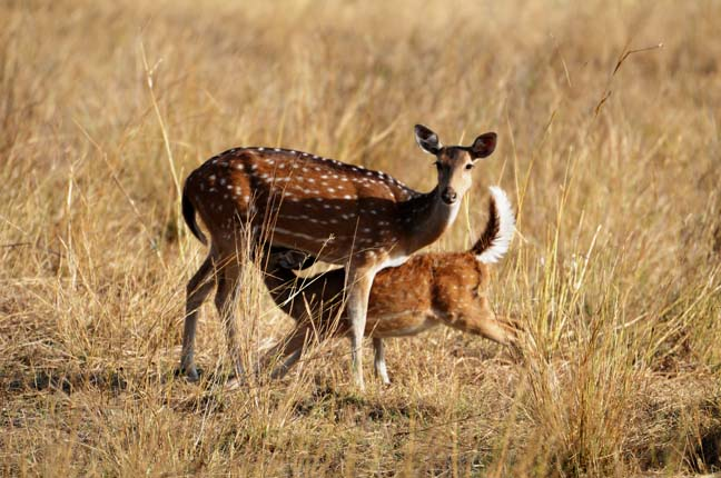 Though most people go to Bandhavgarh National Park to see tigers, one can spend days watching and photographing other animels and birds in the Sanctuary. The Park has a huge population of spotted deer, cheetal (Axis axis), one of the most graceful Indian deers. the motherly affecxtion of this doe caught my attention at Raj Behra, Bandhavgarh.